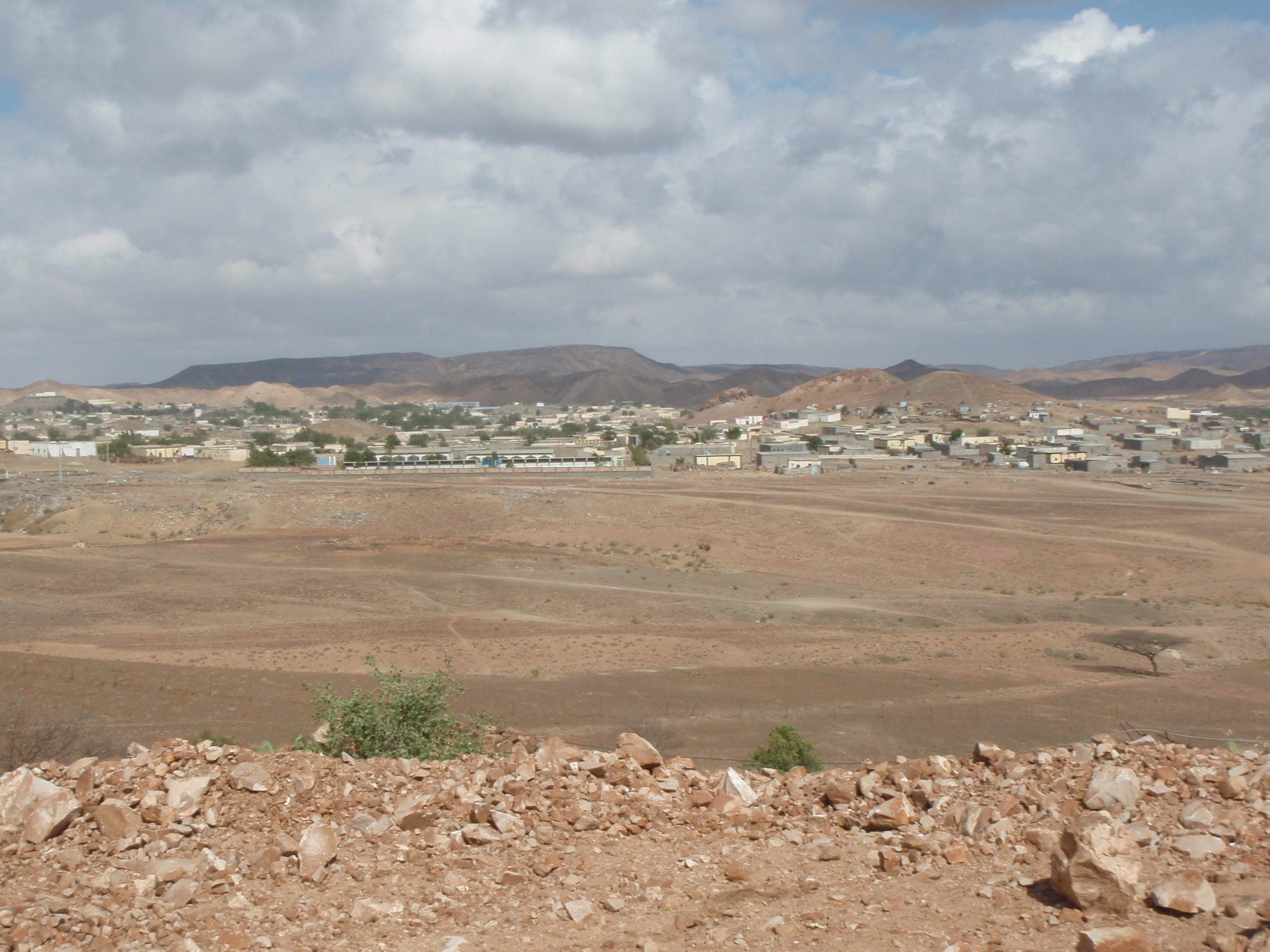 Ali Sabieh overview. The town of Ali Sabieh, with the red mountains in the distance.